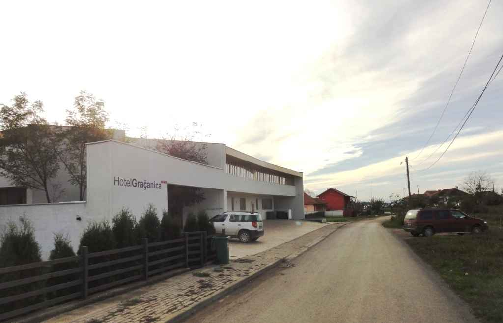 Streetview with the new logo